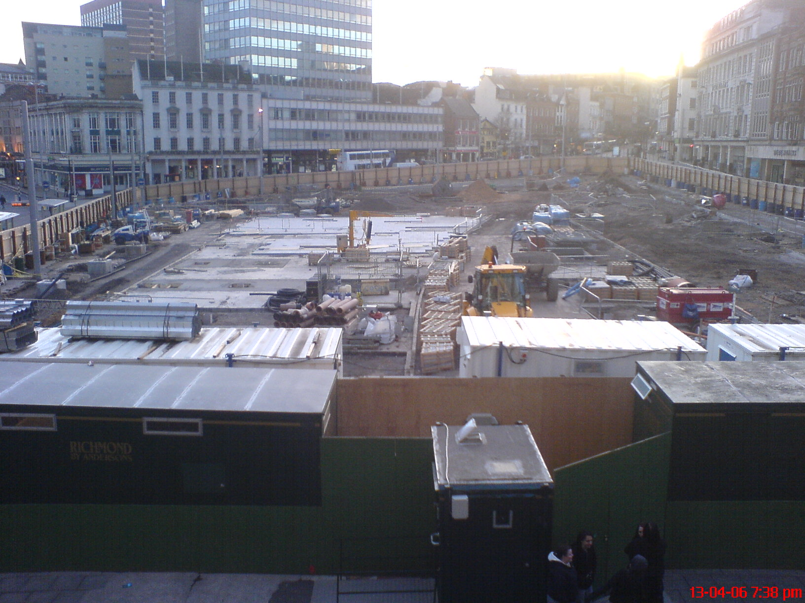 Nottingham Market Square during the building phase of renovation, taken from the ballroom balcony in the Council House